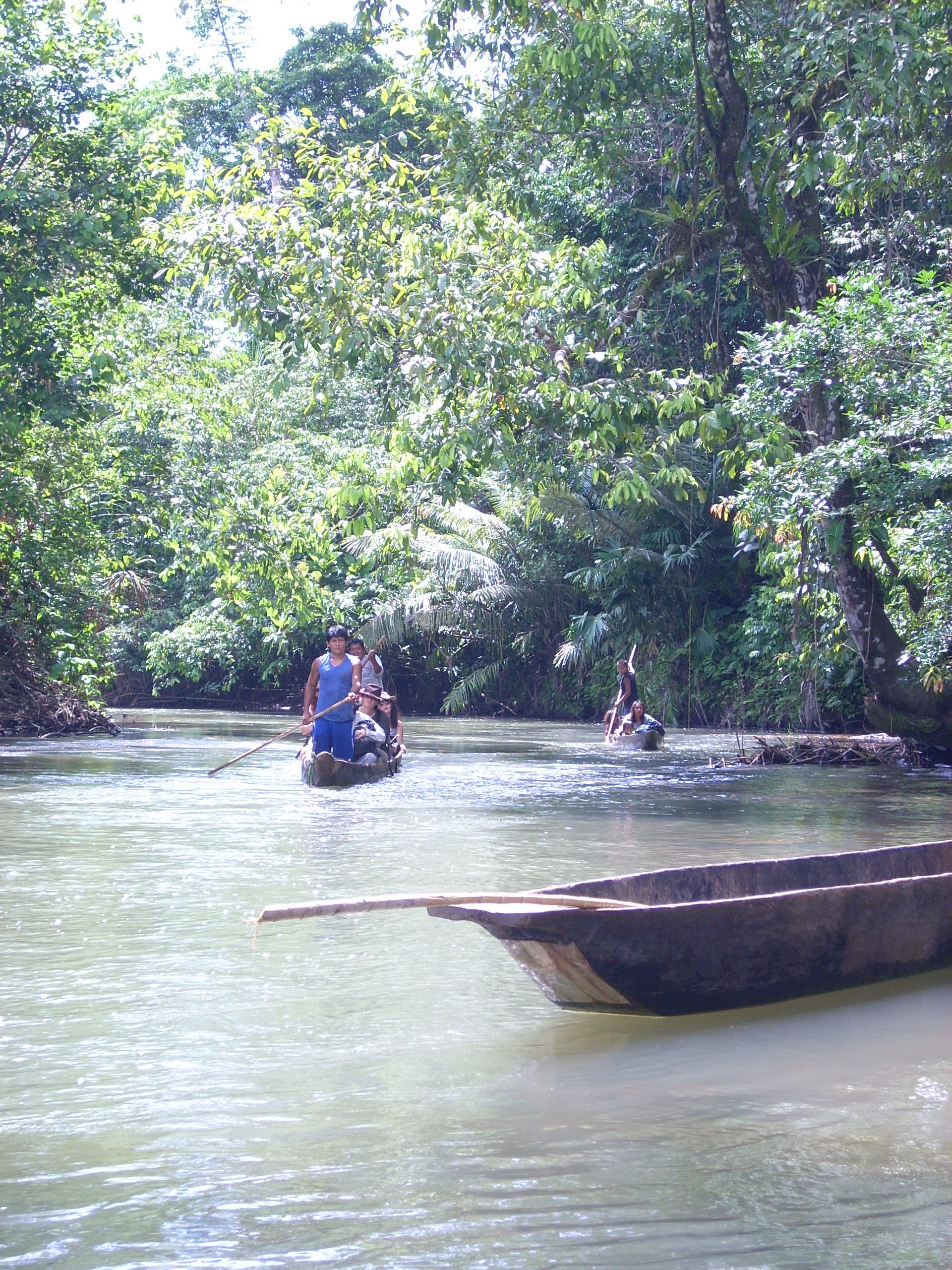 The Conambo river near Naku, Pastaza, Ecuador